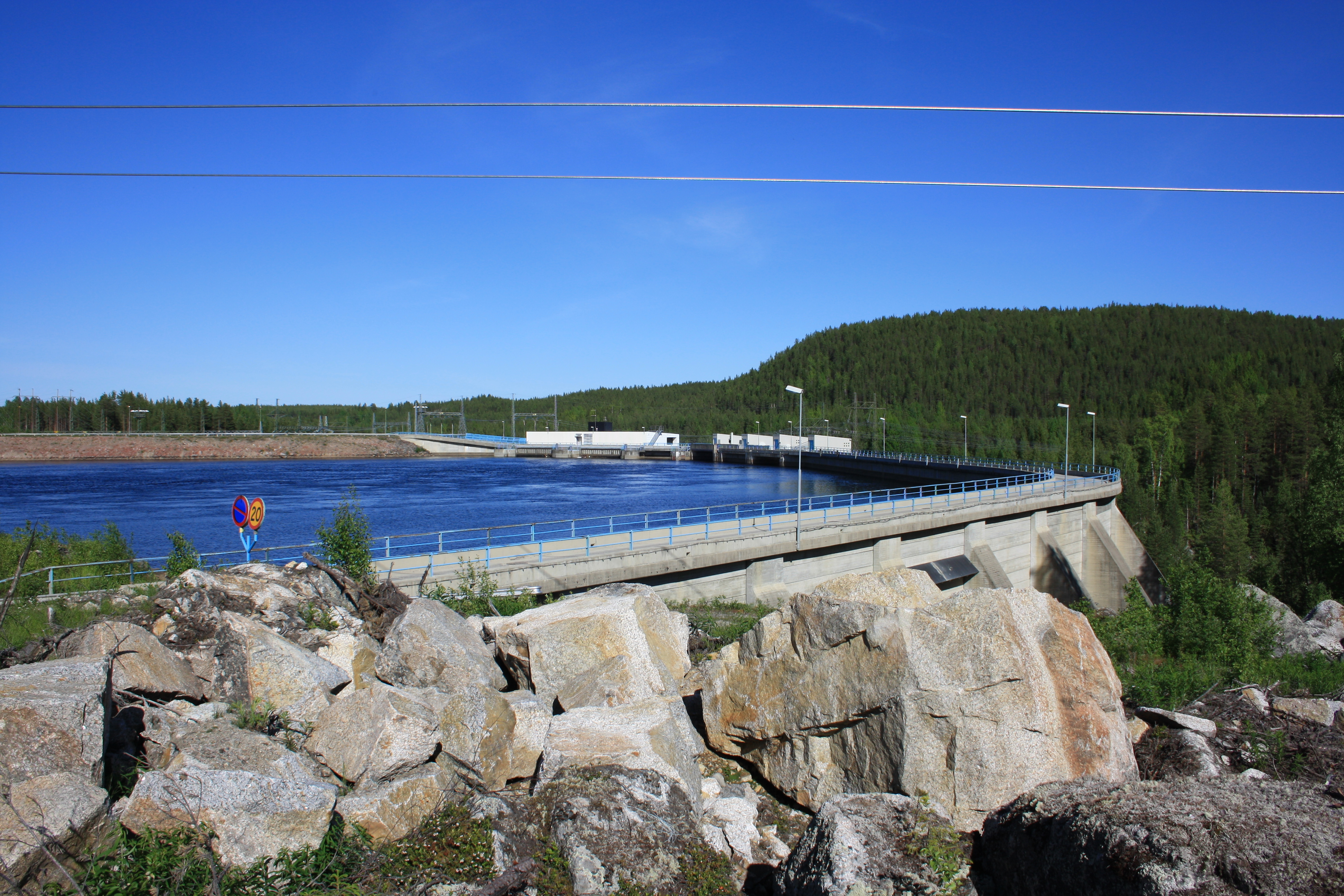 The dam of the Tuggen powerplant in Ume river